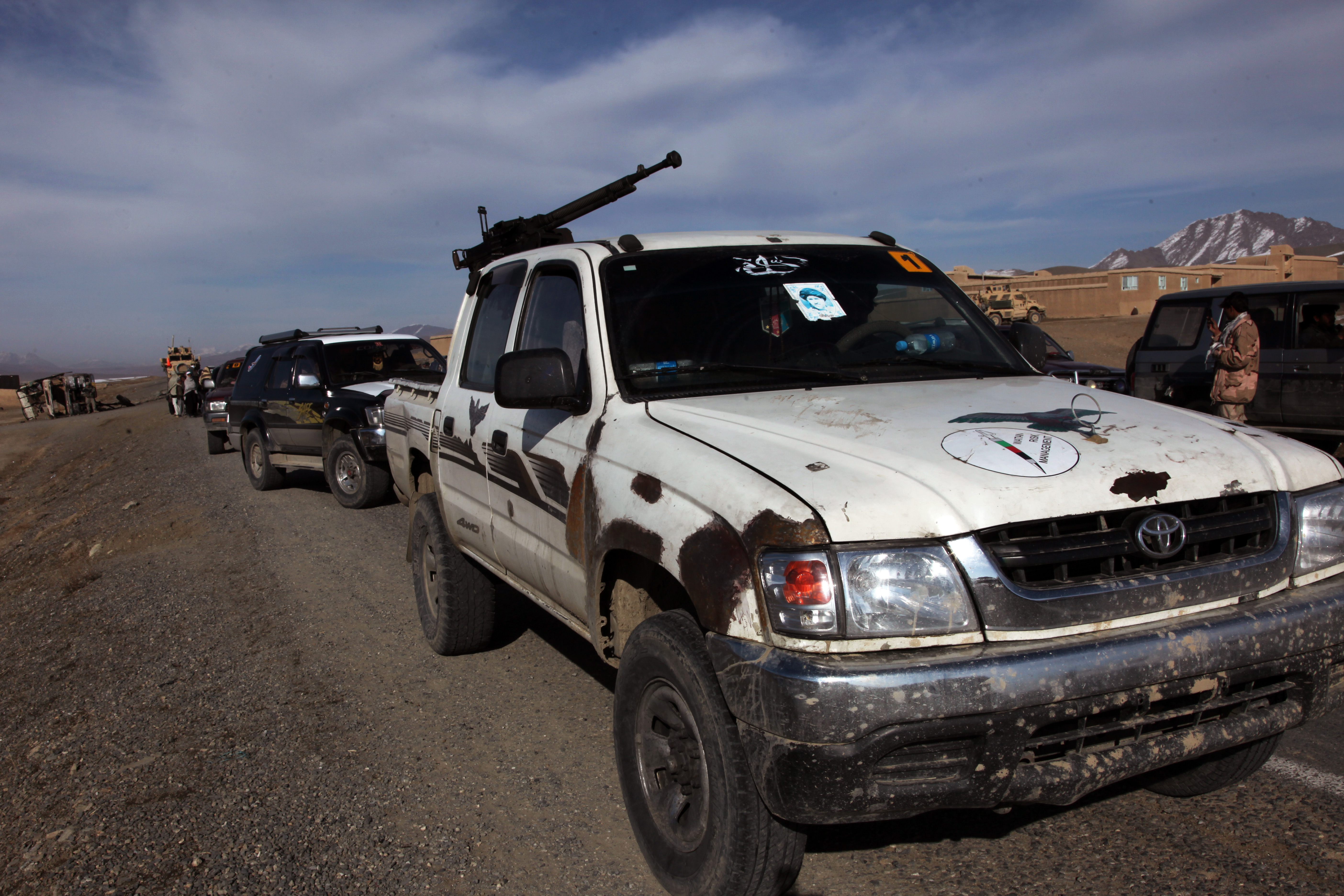 A Private Afghan Security Company technical armed with a DShK heavy machine gun sits along the side of a road. U.S.Forces stopped this security company's convoy due to reports from locals claiming that the security company had been shooting sporadic gunfire at their homes in the villages of Heydark Hel, and Kajkalah, Wardak Province, Afghanistan, Feb. 18, 2010. U.S. Army photo by Sgt Russell Gilchrest.